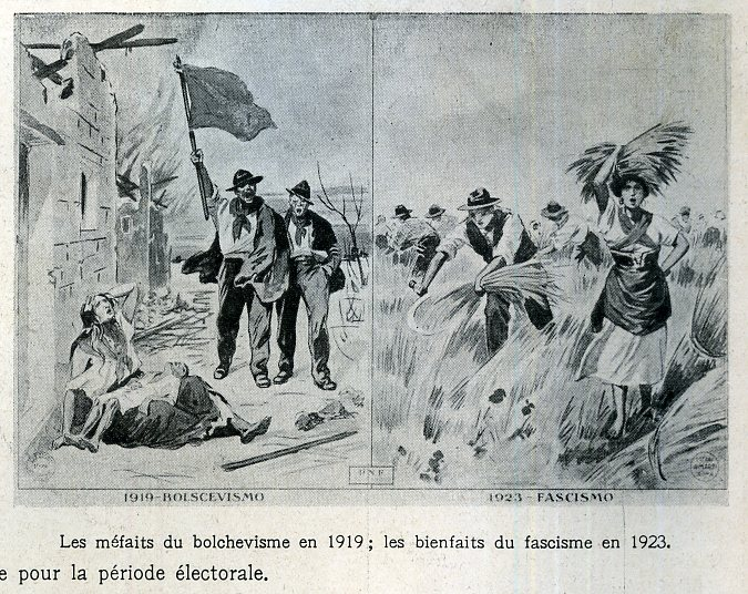 Propagande Fasciste. The text reads: "The misdeeds of Bolshesivm in 1919; the benefits of fascism in 1923"